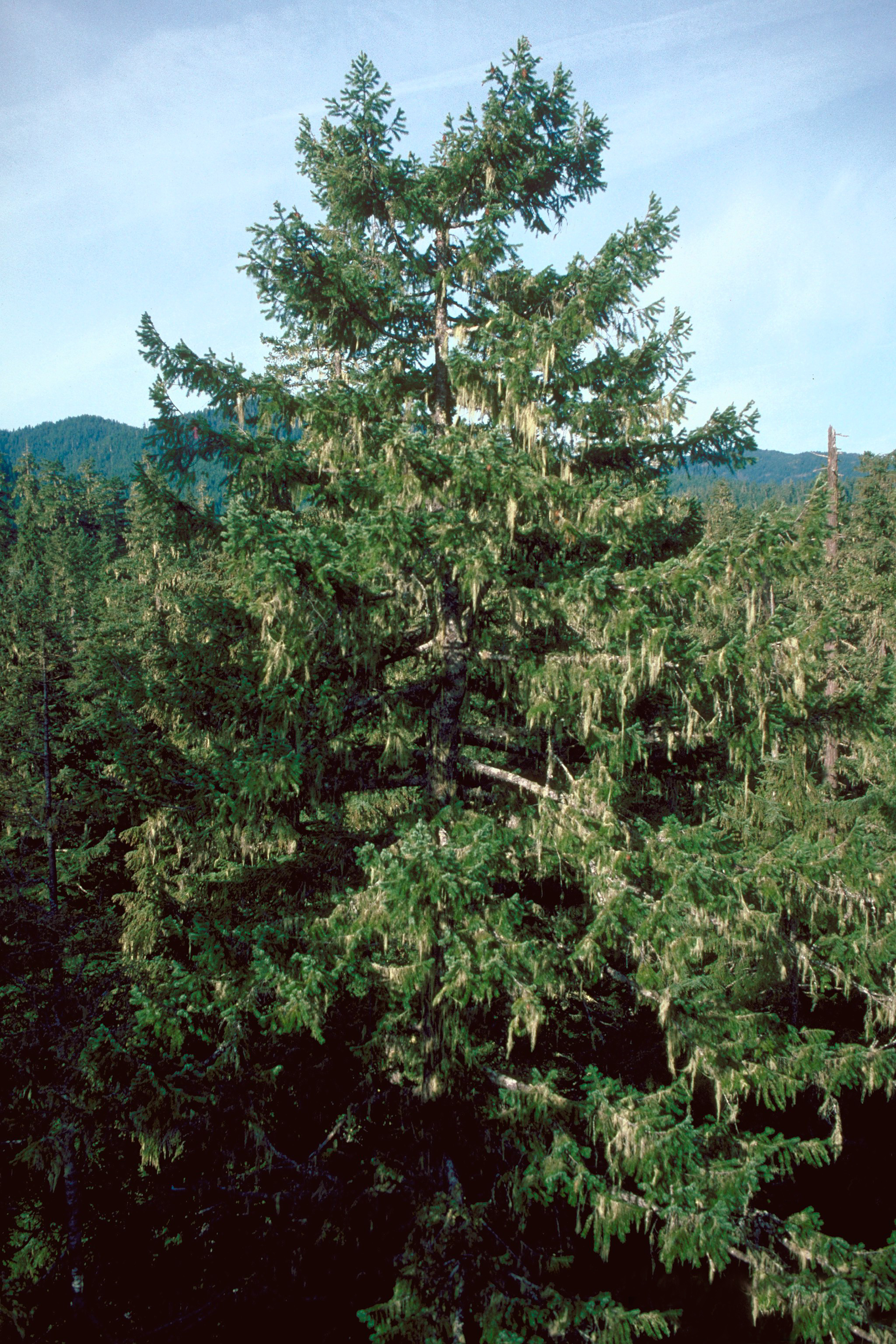 Pseudotsuga menziesii subsp. menziesii, old-growth tree from Wind River Canopy Crane, Gifford Pinchot National Forest, Washington, USA. 45° 49.227' N 121° 57.125' W.